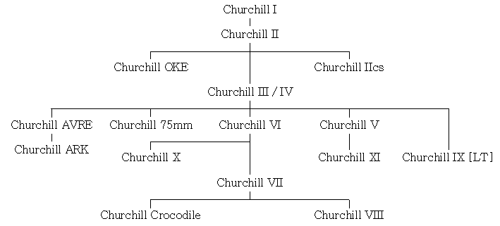 Churchill tank hierarchy